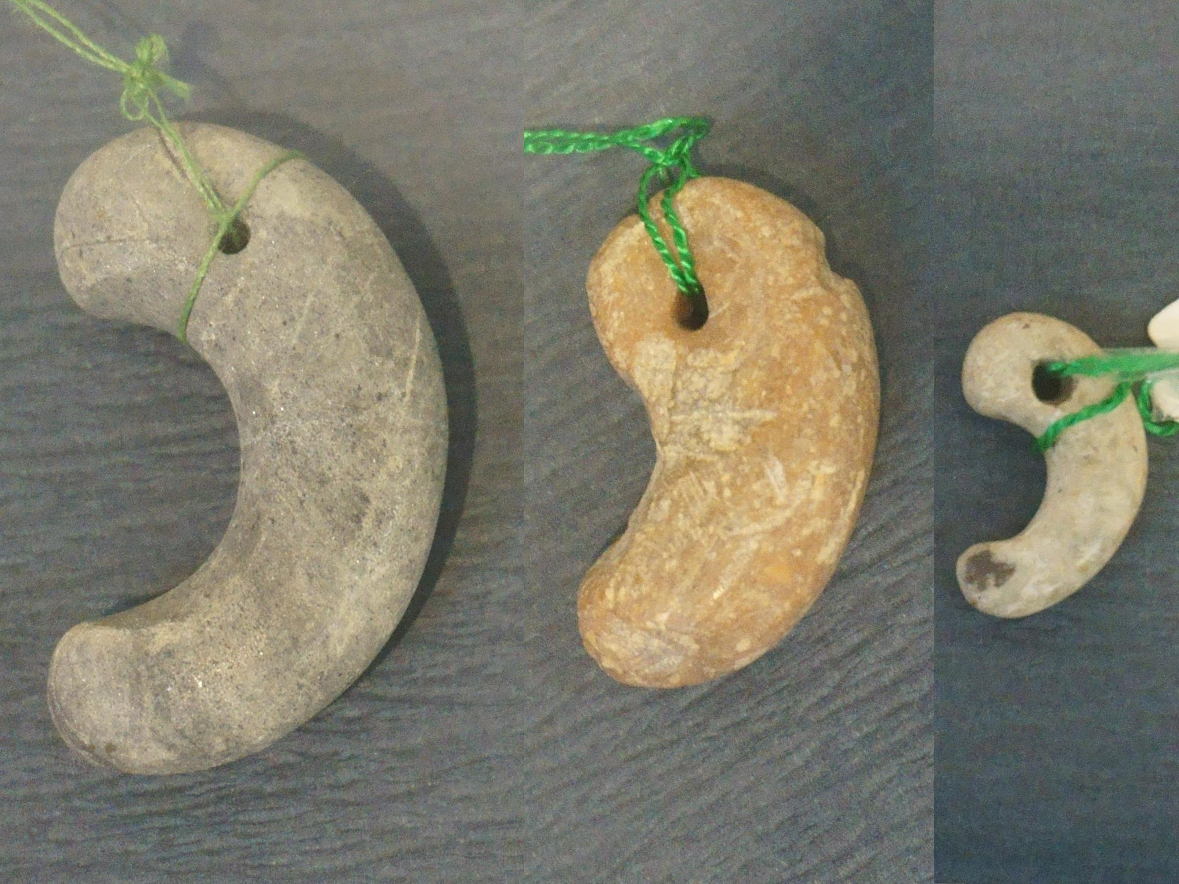 "Magatama", Comma shaped beads, made from stone. Excavated from: Yoshinogari Site. Display:Exhibition room of Yoshinogari Site.